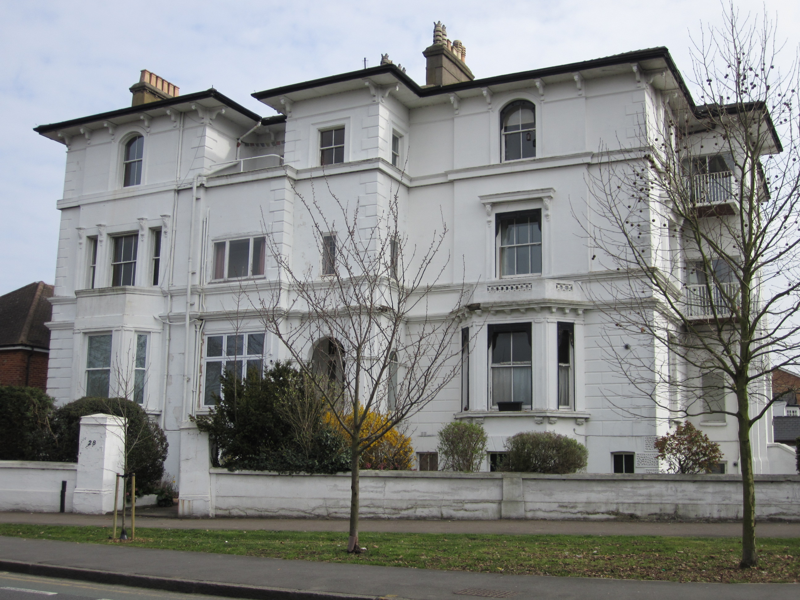 Houses at the corner of Portsmouth Road and Anglesea Road, Kingston.